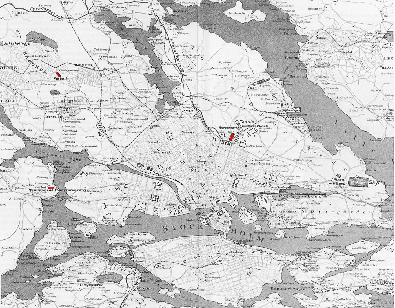 Map of the environs of Stockholm, showing the location of the venues of the Olympic competitions. football venues in red.